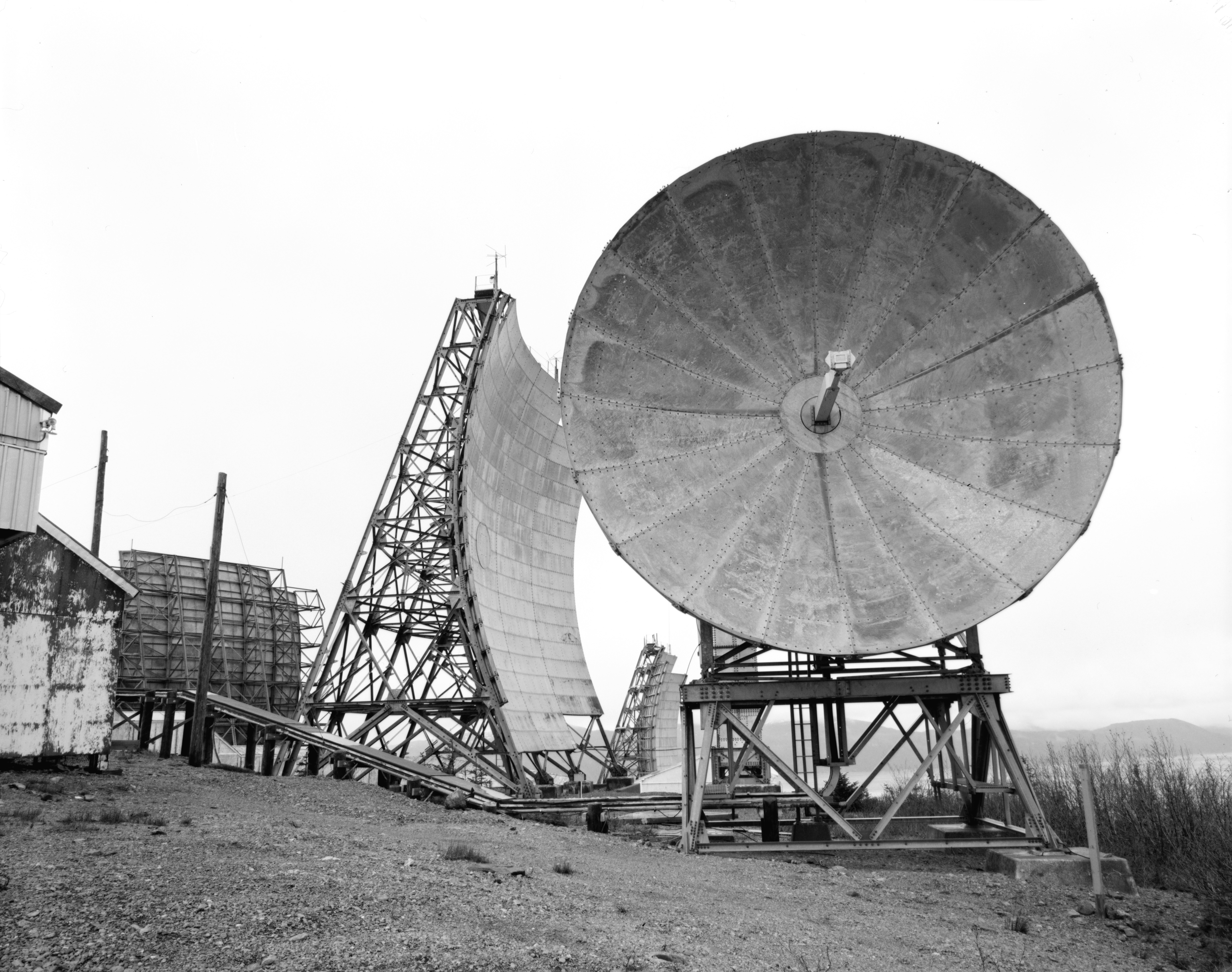 Boswell Bay White Alice Communications System Site, Tropospheric Antennas, Chugach National Forest, Cordova vicinity, Valdez-Cordova District, Alaska